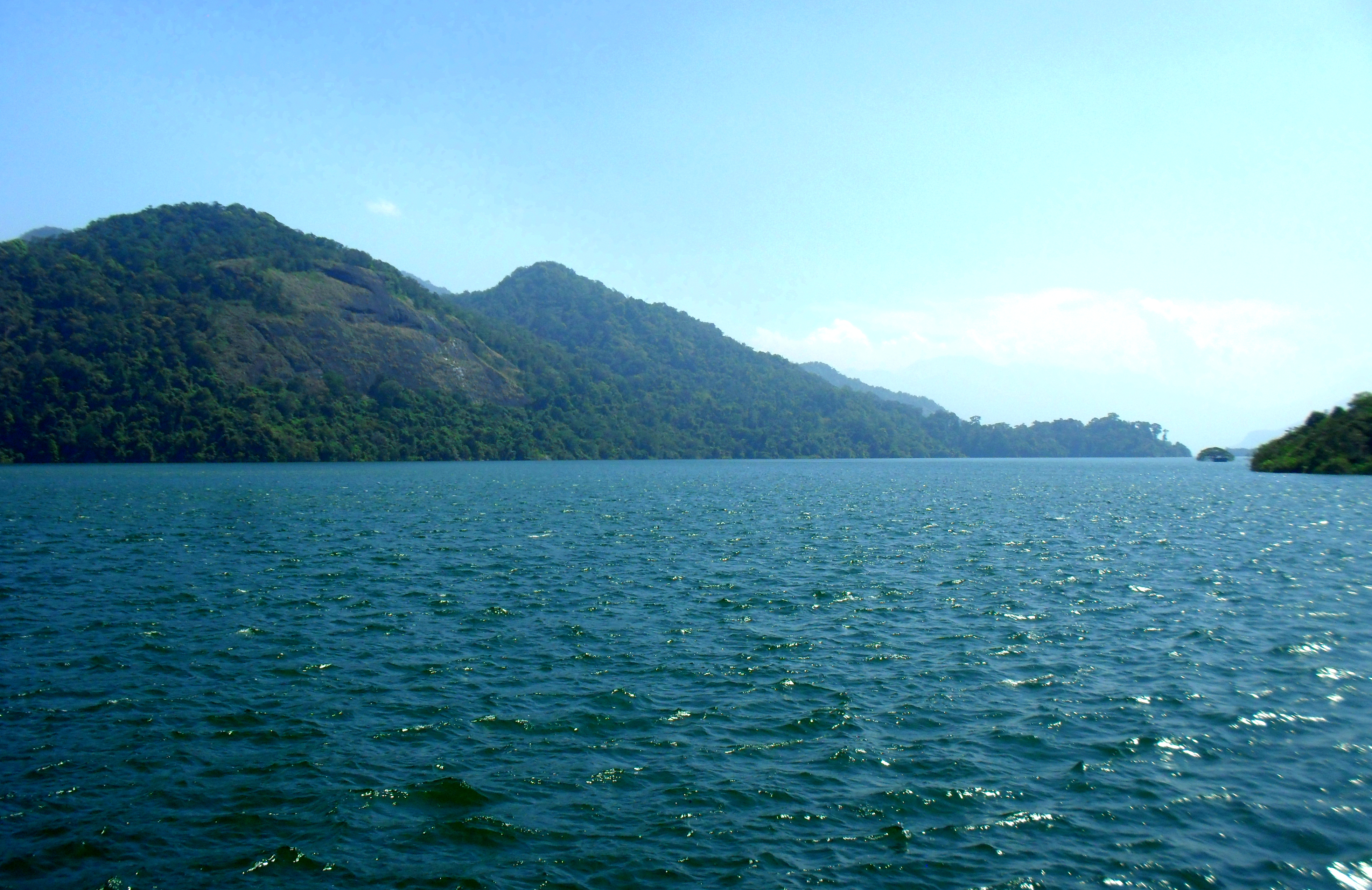 The beautiful scene of Thenmala Dam's reservoir - Kollam District, Kerala